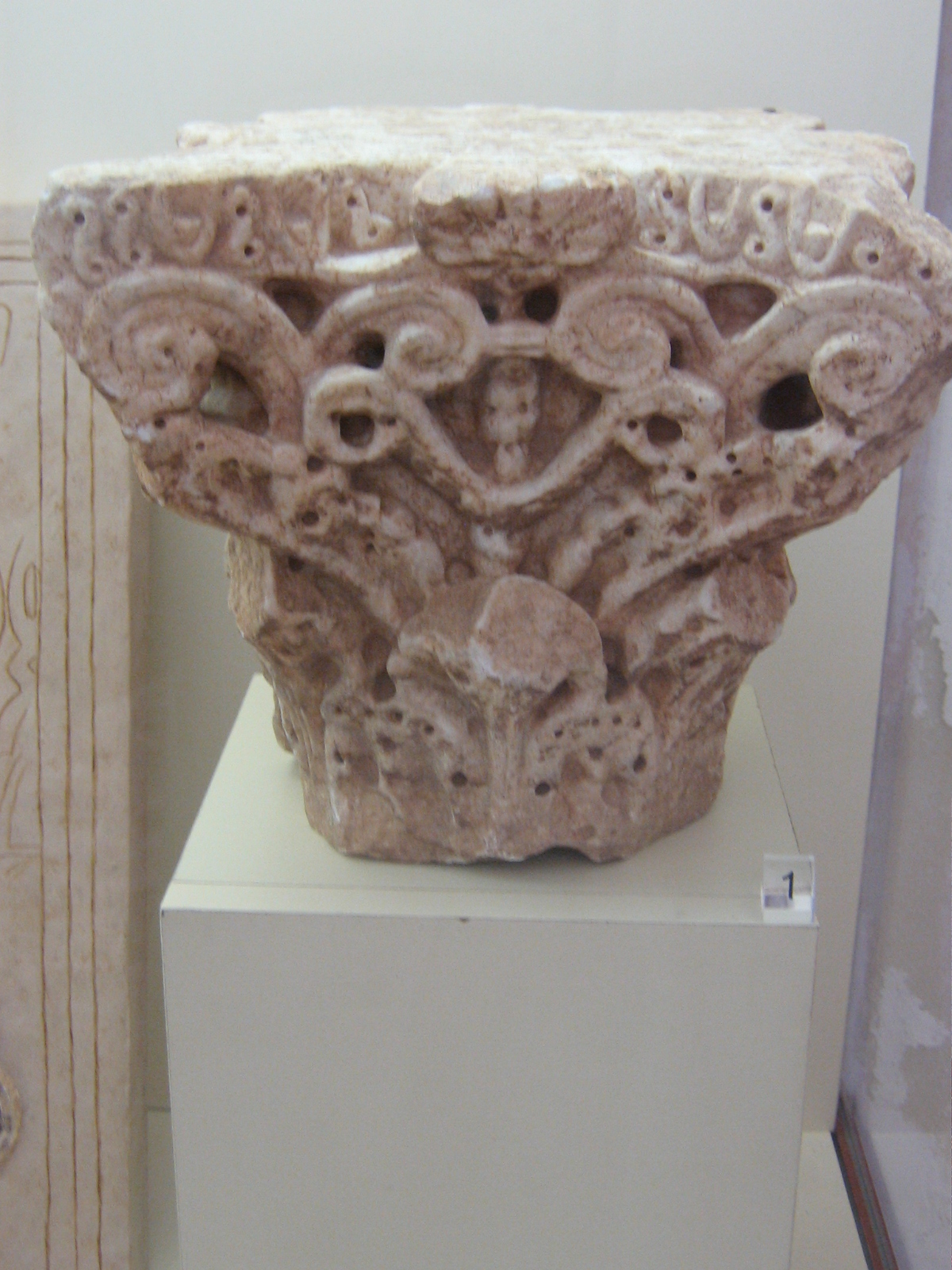 possible Visigoth artefacts from the XIII century